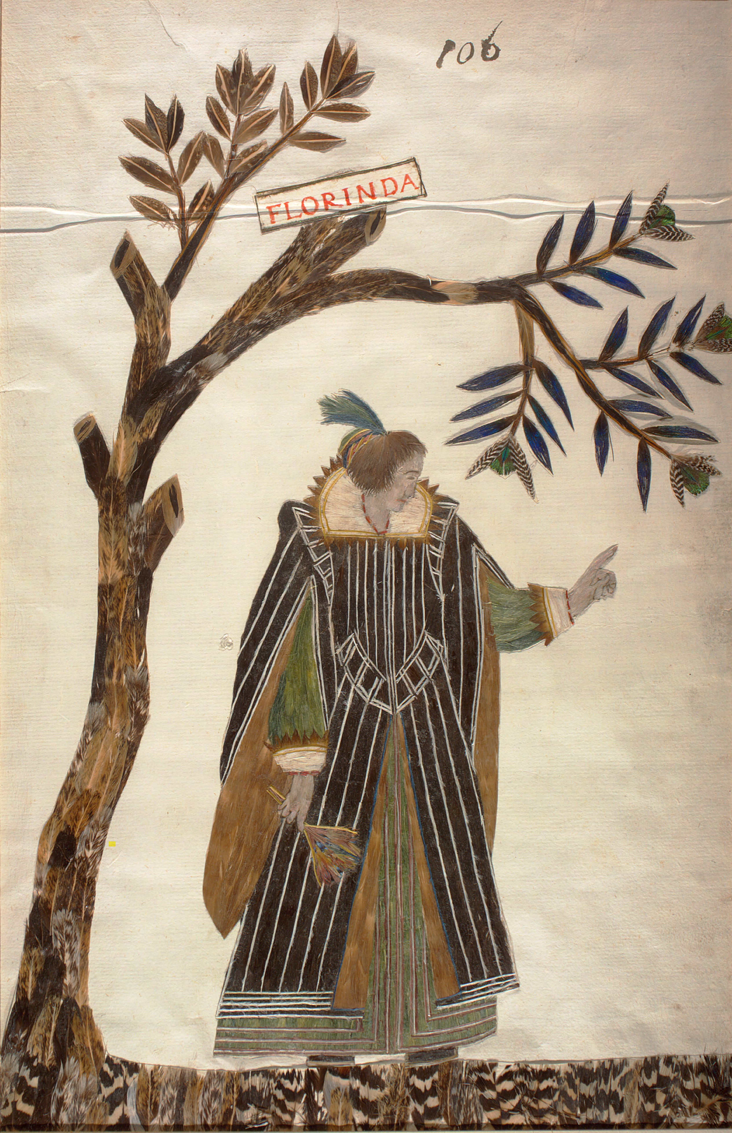 A portrait of the Italian actress and singer Virginia Ramponi Andreini, also known a "La Florinda", (1583 – c.1630) from The Feather Book, a series of images made entirely of bird feathers. The creator was Dionisio Minaggio, the Chief Gardener of the Duchy of Milan. The book primarily contained images of birds but also contained sets of images depicting hunters, tradesmen, musicians and commedia dell'arte actors. This portrait (plate 106) is from the collection of commedia dell'arte actors.